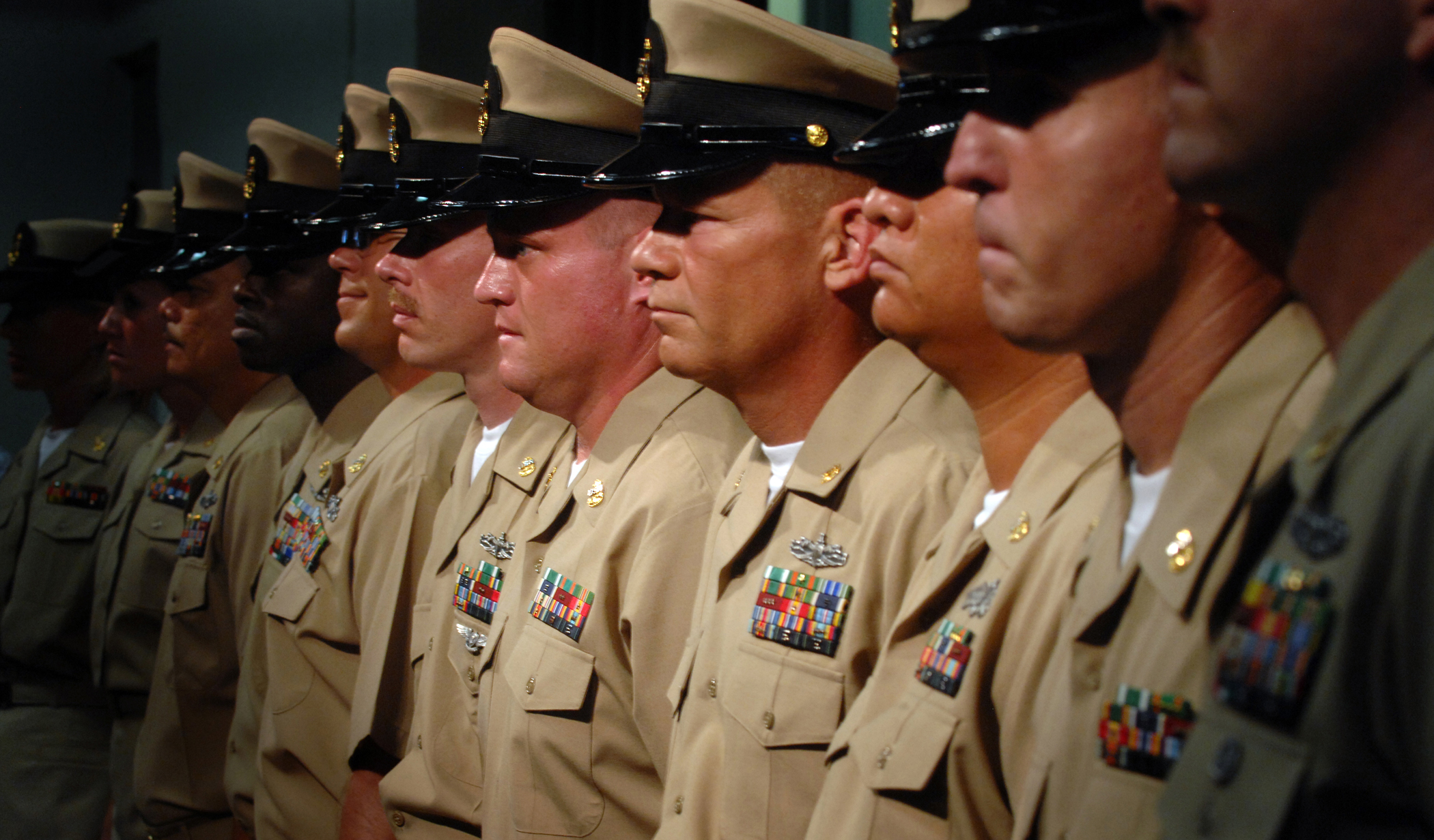 GUANTANAMO BAY, Cuba (Sept. 16, 2008) Newly pinned chiefs stand at attention during Naval Station Guantanamo Bay's Chief Pinning Ceremony. Dressed in their traditional khaki uniform, the new chiefs received their pins and combination covers before shaking hands with most guests in a long receiving line. (U.S. Navy photo by Petty Officer 2nd Class Jayme Pastoric/Released)